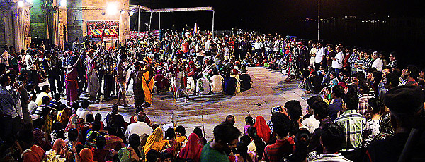 Diverse crowd gathers for rare evening Gavari performance in the city